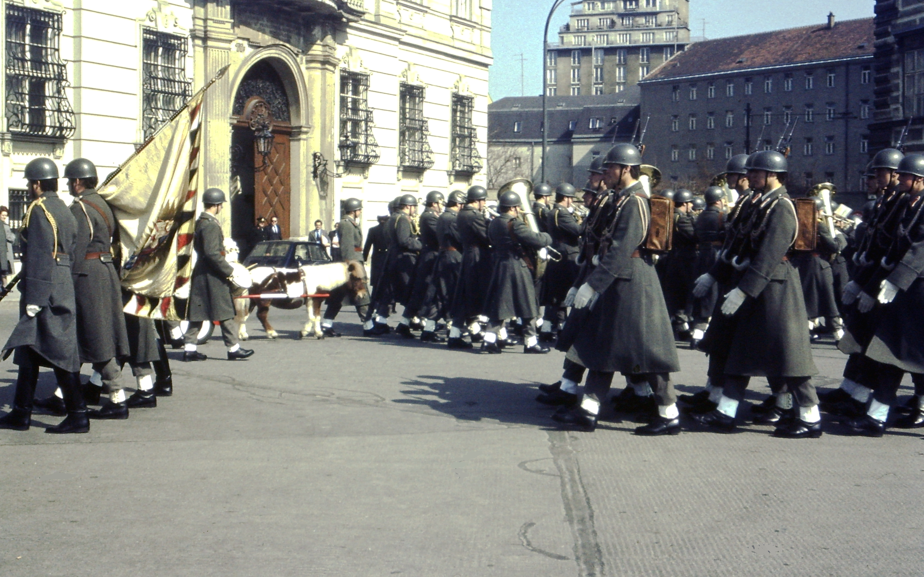 Departure of the Guards Corps and the music with their mascot, behind the Chancellor's Office